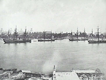 AWM Caption: "SYDNEY, NSW. C.1880. SHIPS OF THE ROYAL NAVY'S SQUADRON ON THE AUSTRALIA STATION MOORED IN FARM COVE. (LEFT TO RIGHT) SCREW SLOOP HMS EGERIA, SCREW CORVETTE HMS RAPID, SCREW SLOOP HMS ALERT, SCREW CORVETTES HMS OPAL AND CALLIOPE. THE PHOTOGRAPH WAS TAKEN FROM FORT DENISON".